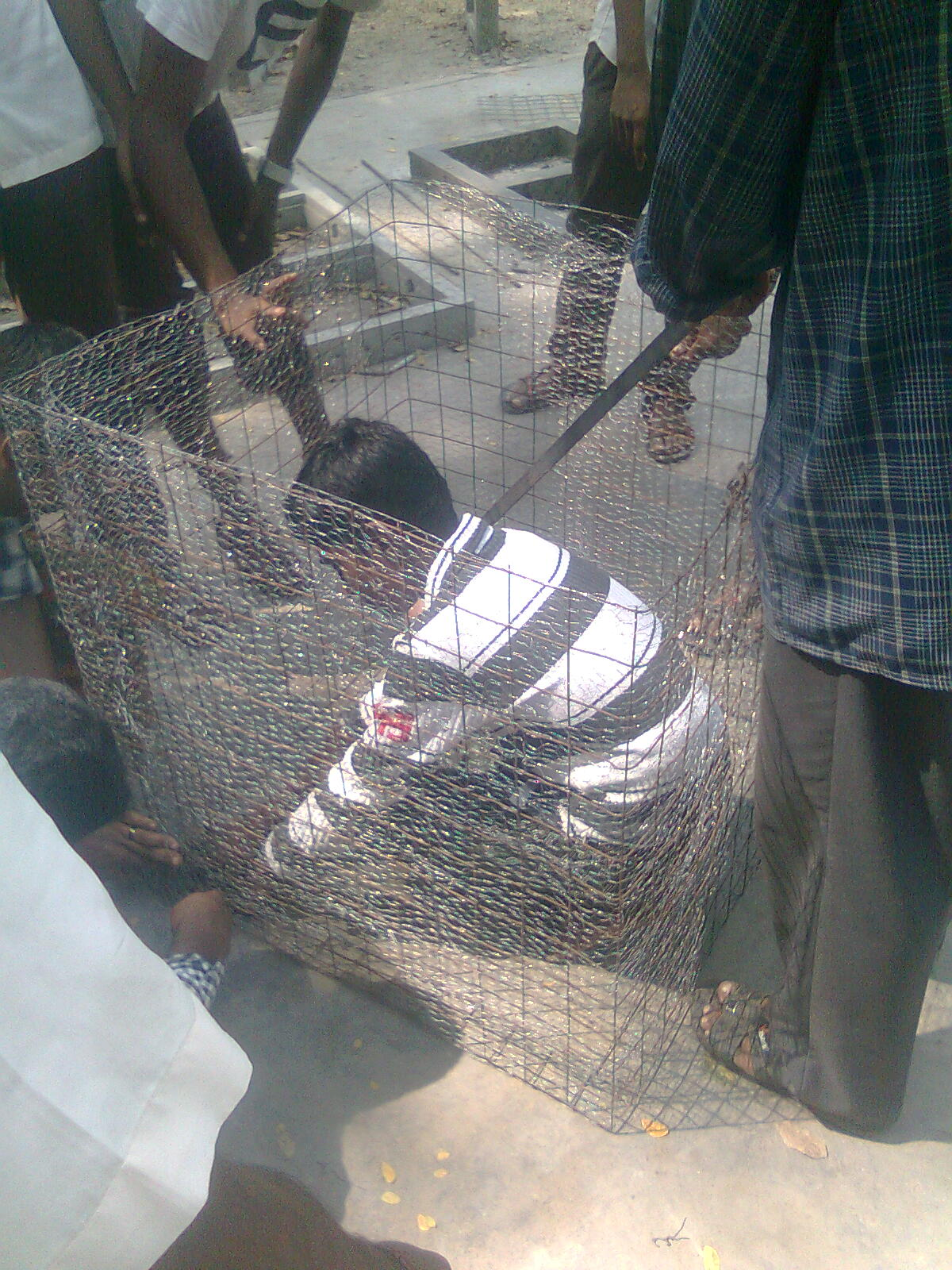 Winding of chickenmesh over the weldedmesh for Ferro-cement Tank